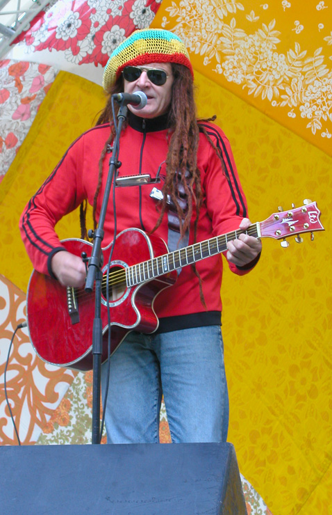 Pelle Miljoona